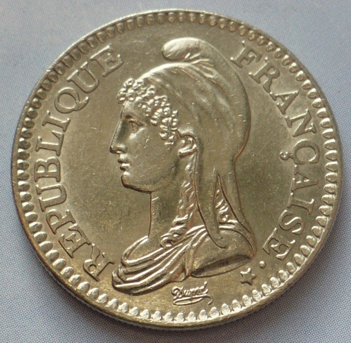 France 1 Franc 1992